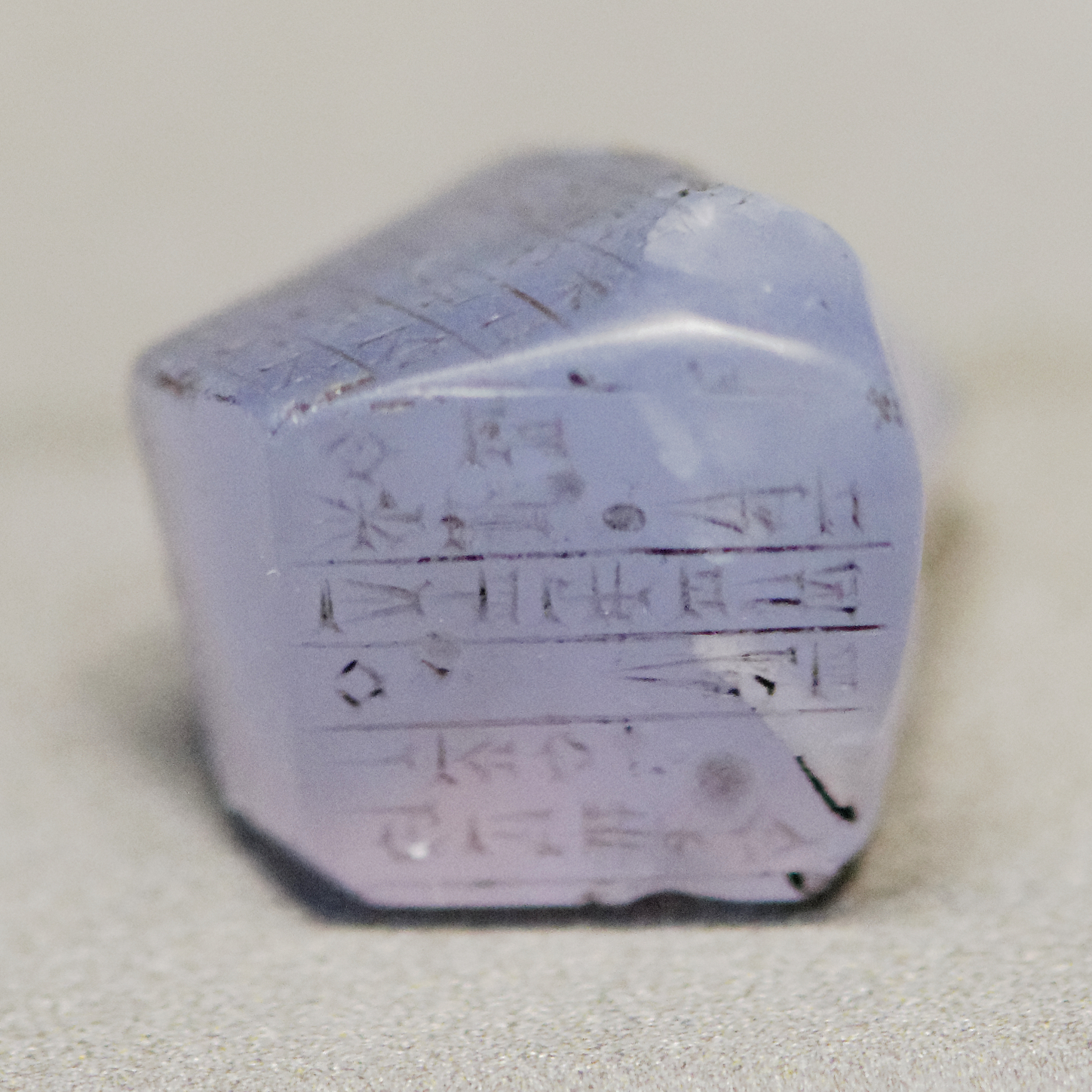 (recently rotated: (25 June 2012)-(Tall strokes, at individual 'cuneiform character groups', right, when the group ends with a vertical stroke)--Cuneiform characters with the vertical, "tall", or long stroke, is found, often, at the right of a "cuneiform block", (or the end of the block) of characters. The stone artifact was originally placed upside down for the photo, at the Louvre. The lines of text are read left-to-right, starting at top left corner. (NOTE, the photographed FACE, is not completely flat, but 2 and 1/2 lines of text are, on a "flat, in-focus section".) Stone with a votive inscription with the name of Nazi-Maruttash, son of Kurigalzu II. Babylonian artwork, Kassite period.